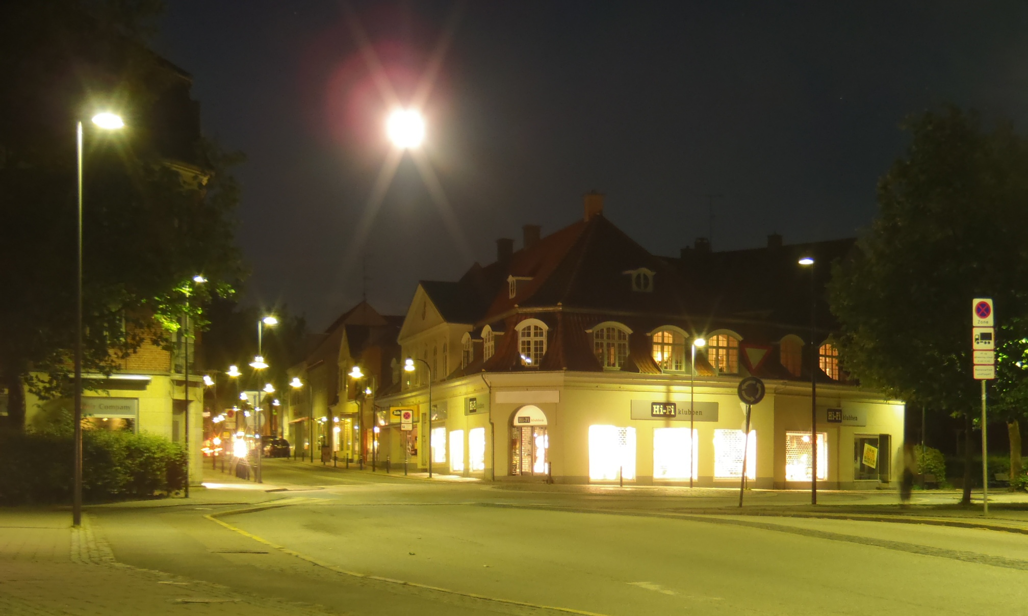 Lyngby Hovedgade 40, Kongens Lyngby, Denmark. At the roundabout and with the moon by night. Left in the picture is Brohus (Lyngby Hovedgade 9). Photo taken from Stades Krog